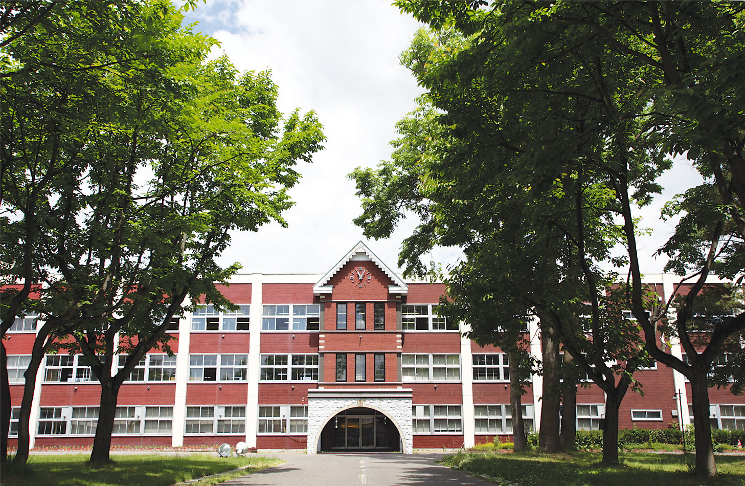 Clark Memorial International High School in Fukagawa City, Hokkaido, Japan